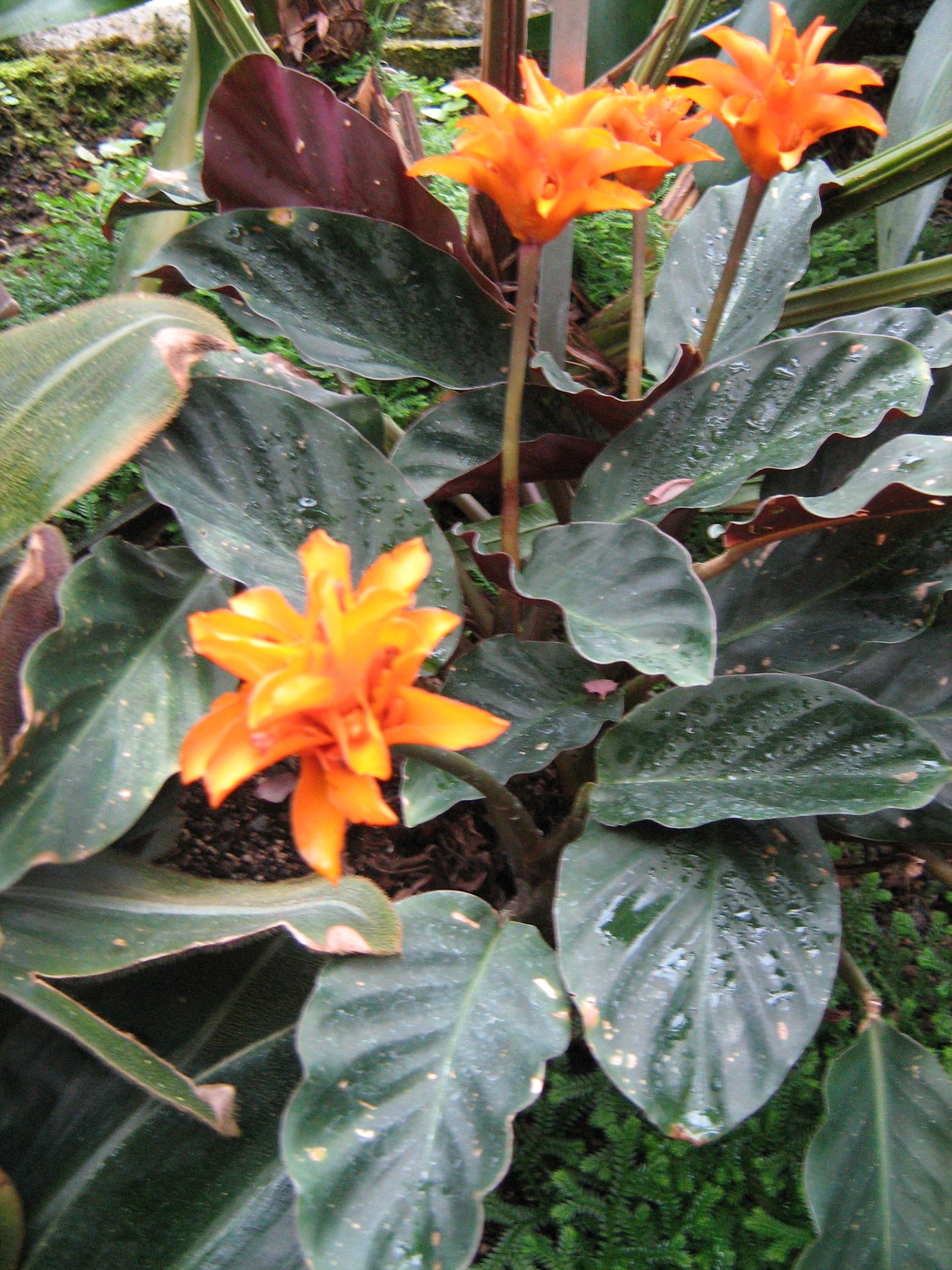 Calathea crocata